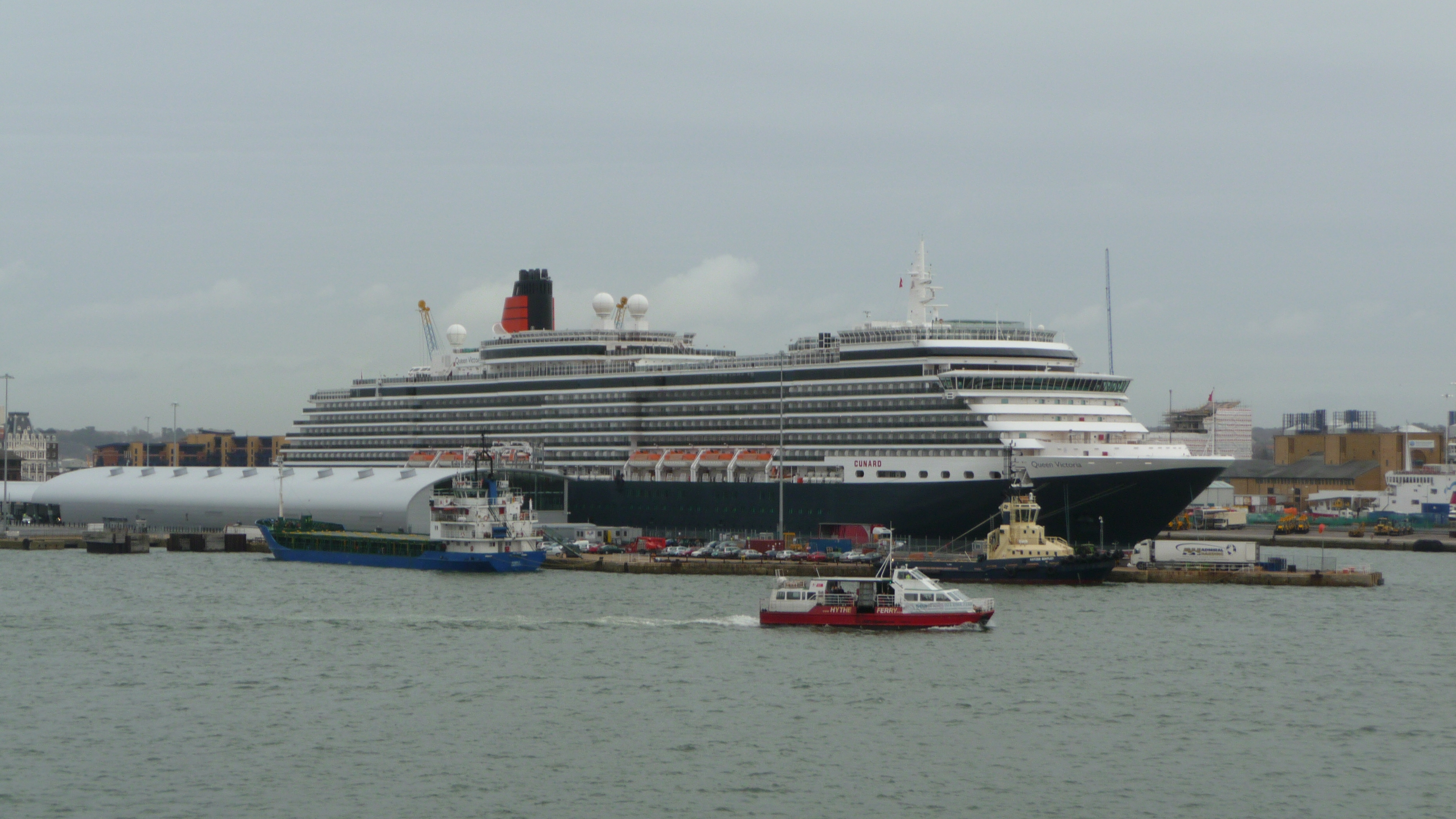 Cunard Line ship MS Queen Victoria, seen docked in Southampton on Dock Gate 4. It is seen here from a Red Funnel car ferry, which has just left its dock at Town Quay for its journey to East Cowes.